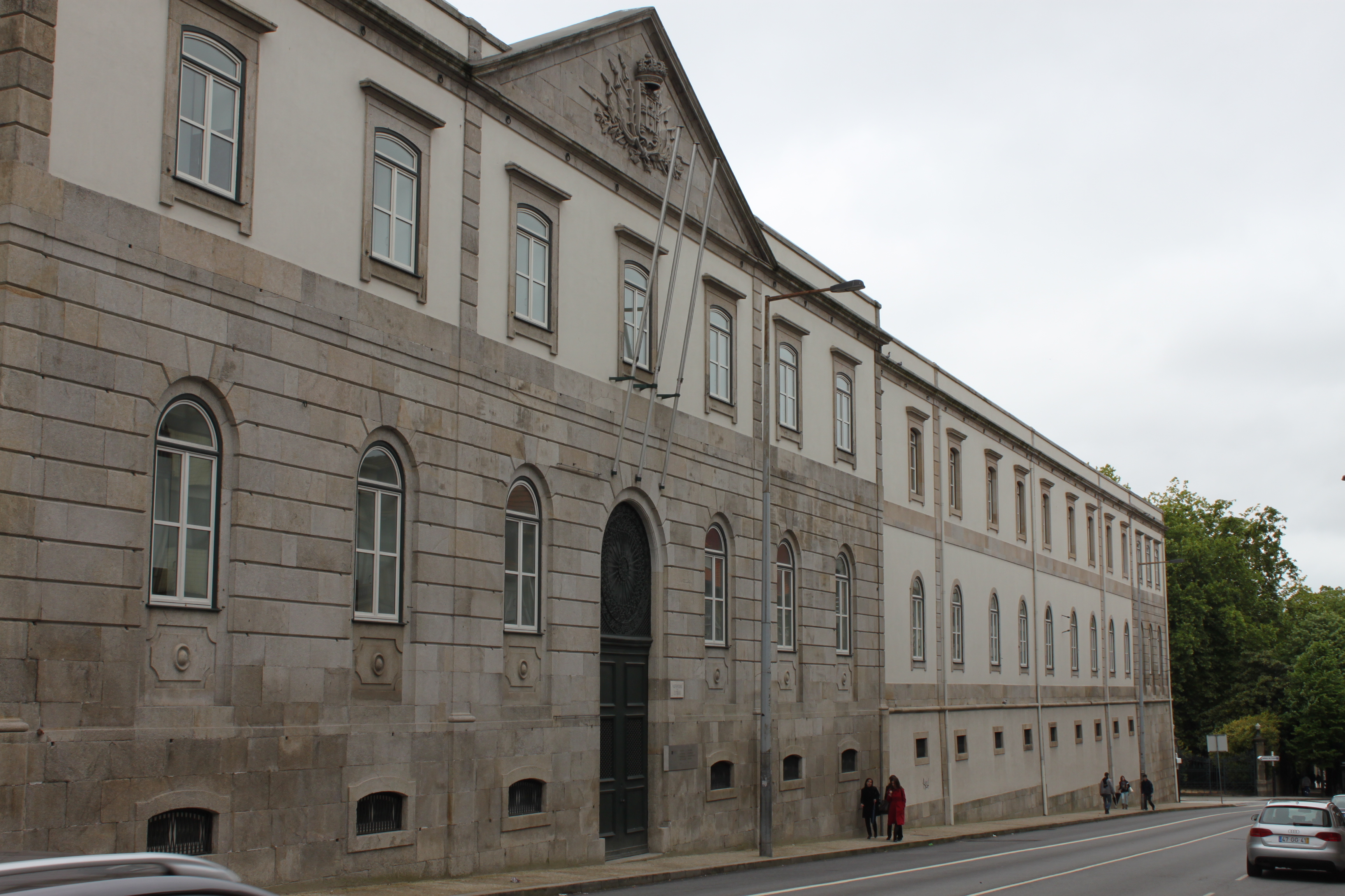 ICBAS-FFUP / Antiga Reitoria da Universidade do Porto / Antigo Quartel CICA5